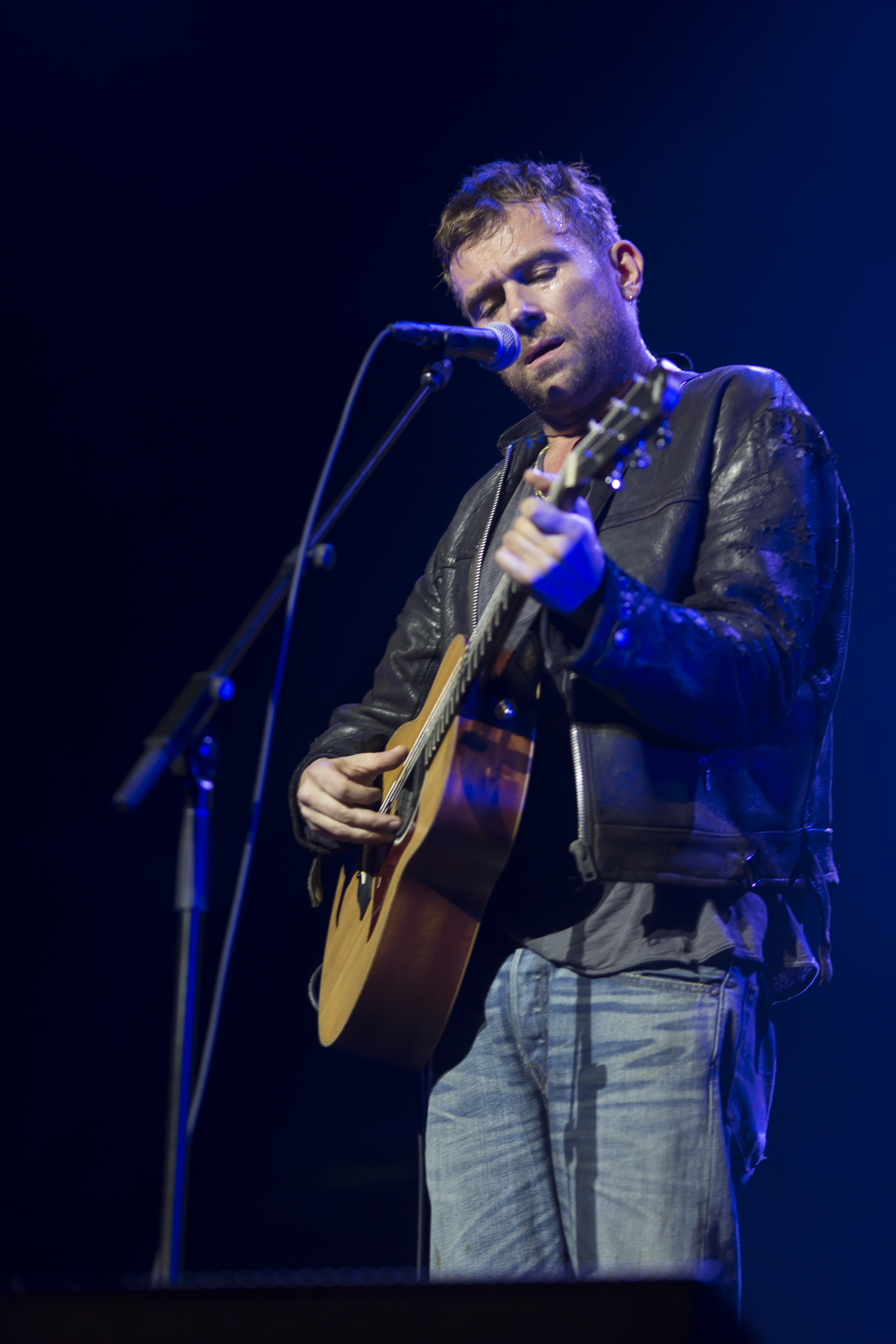 Damon Albarn @ The Sydney Opera House - 16th Dec 2014